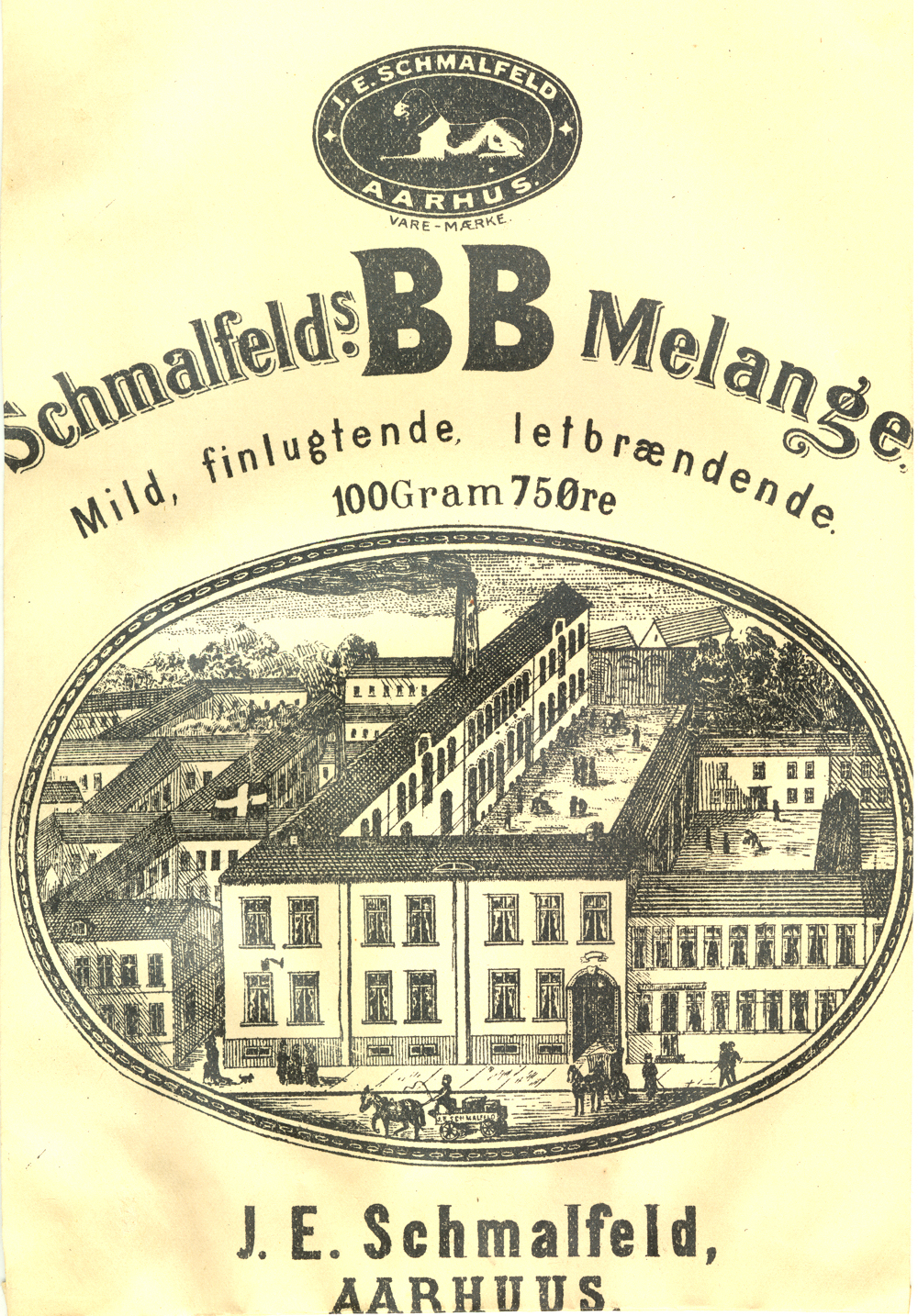 J.E. Schmalfeld, tobacco factory in Aarhus. Advertisement for Melange cigars.